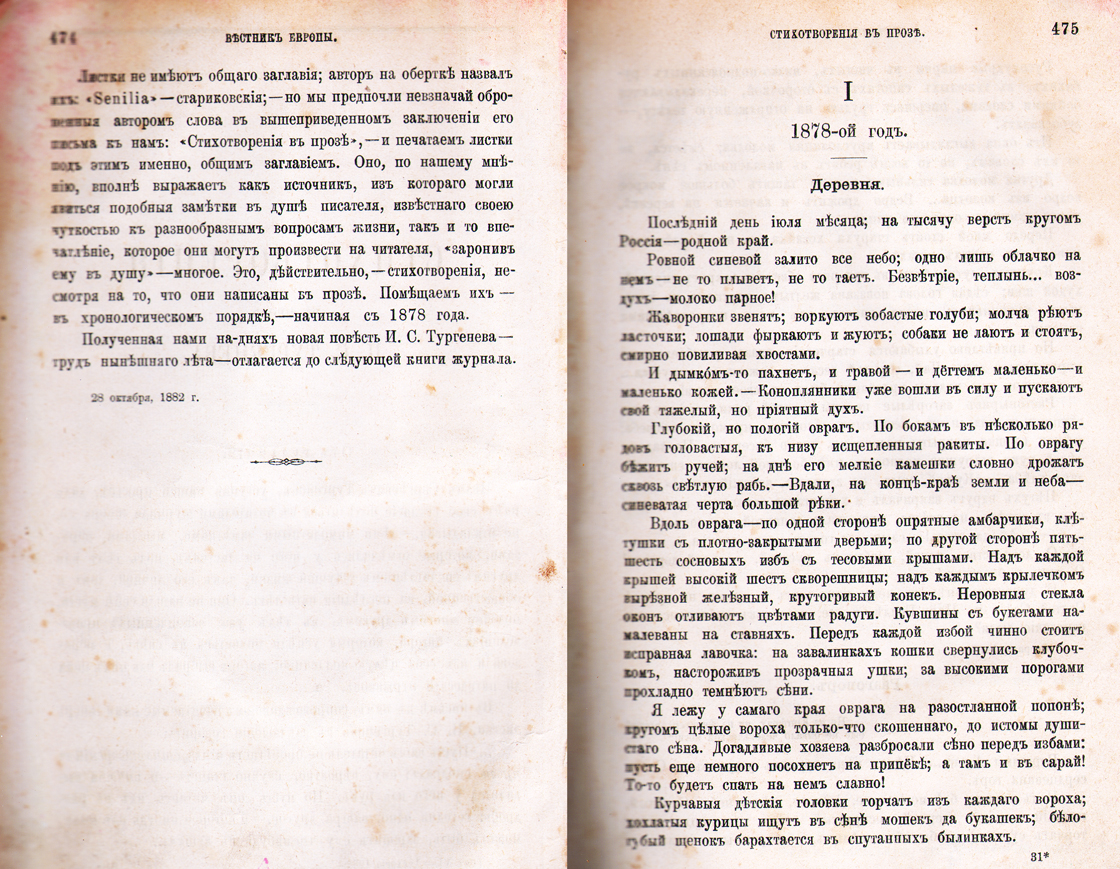 the Poems in Prose, by Ivan Turgenev